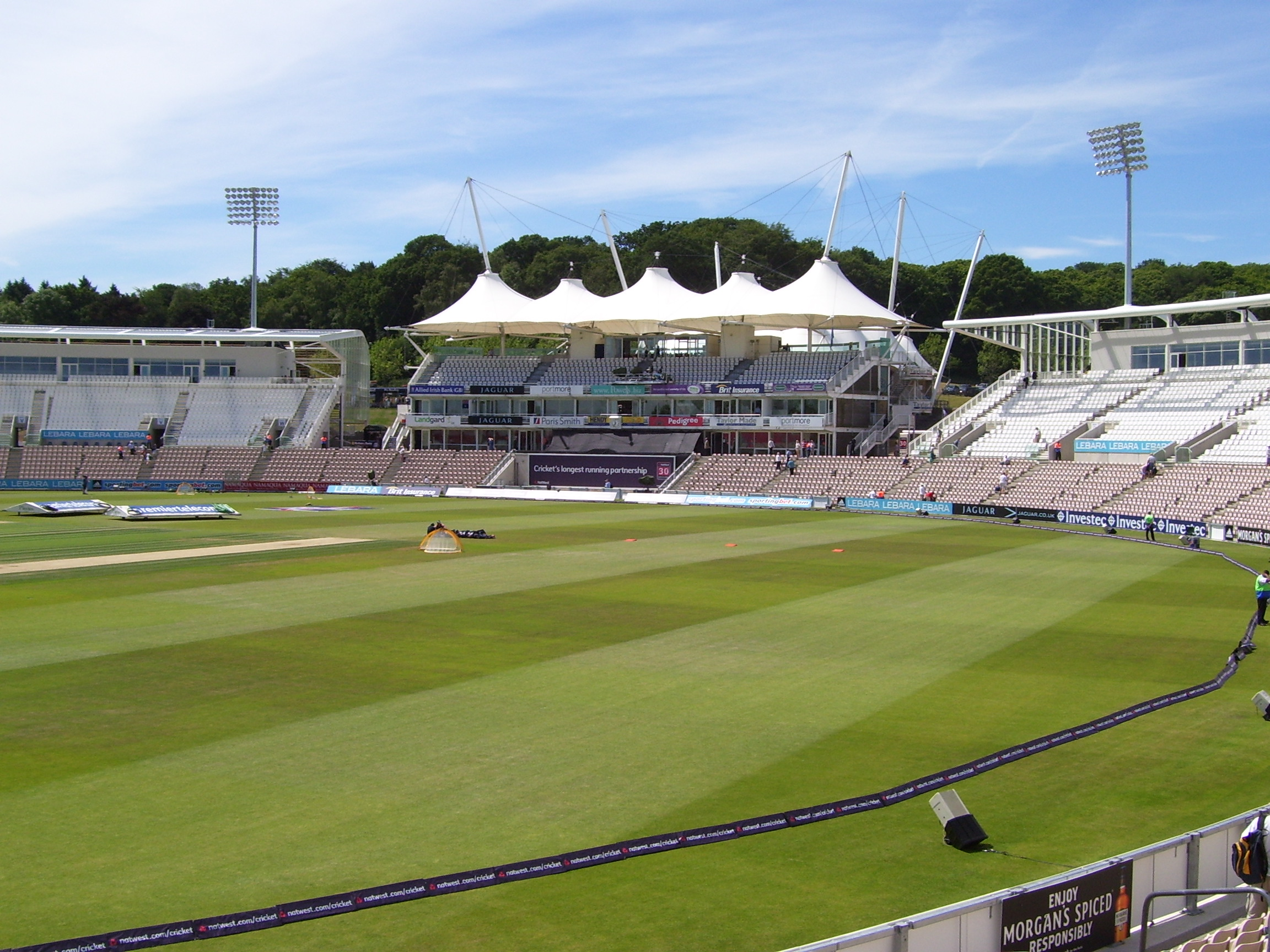 The Pavilion flanked by the new East and West stands, shortly before England v Australia ODI.